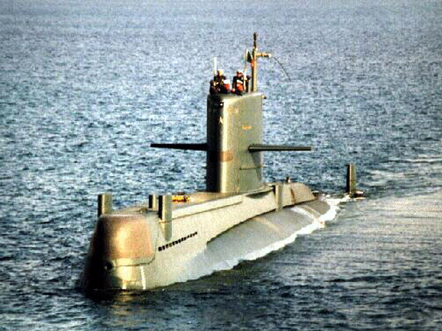 Italian Sauro class submarine (From wiki italy)